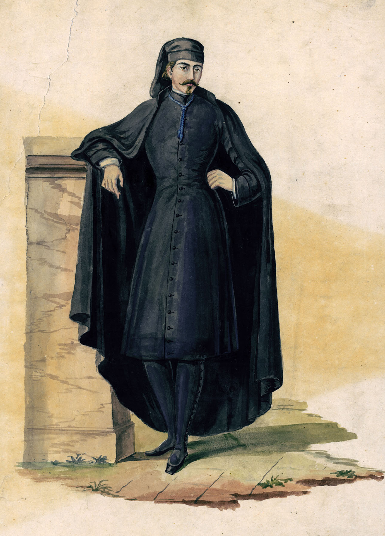 Alumnus of the University of Coimbra, 18th century.